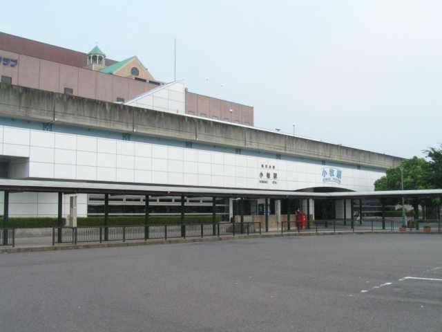 Komaki Station is a train staion in Komaki, Aichi, Japan. This station building was for former Tokadai Line.